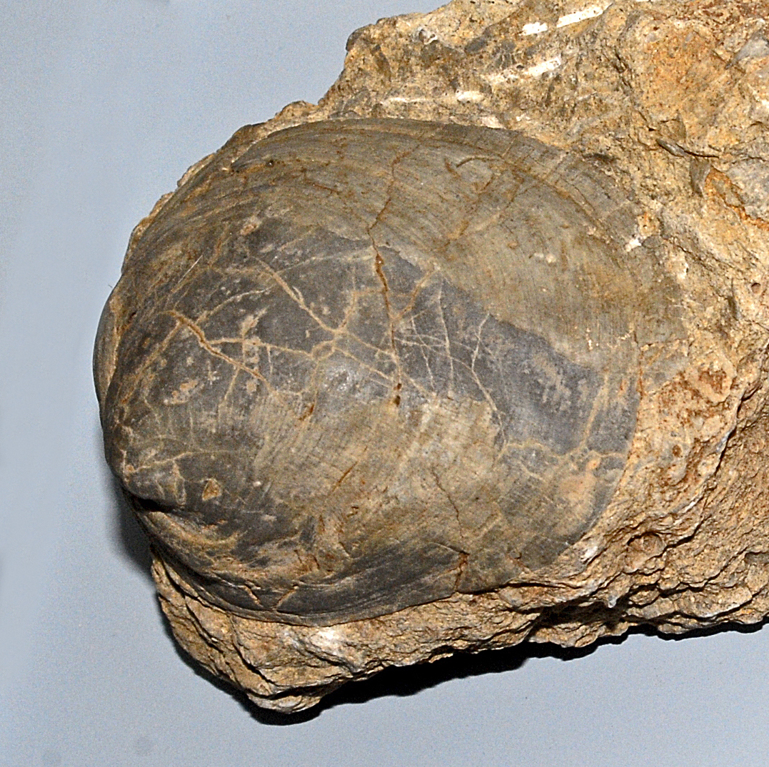 Fossil of Velates species, on display at the Museo Paleontologico Giulio Maini, Ovada